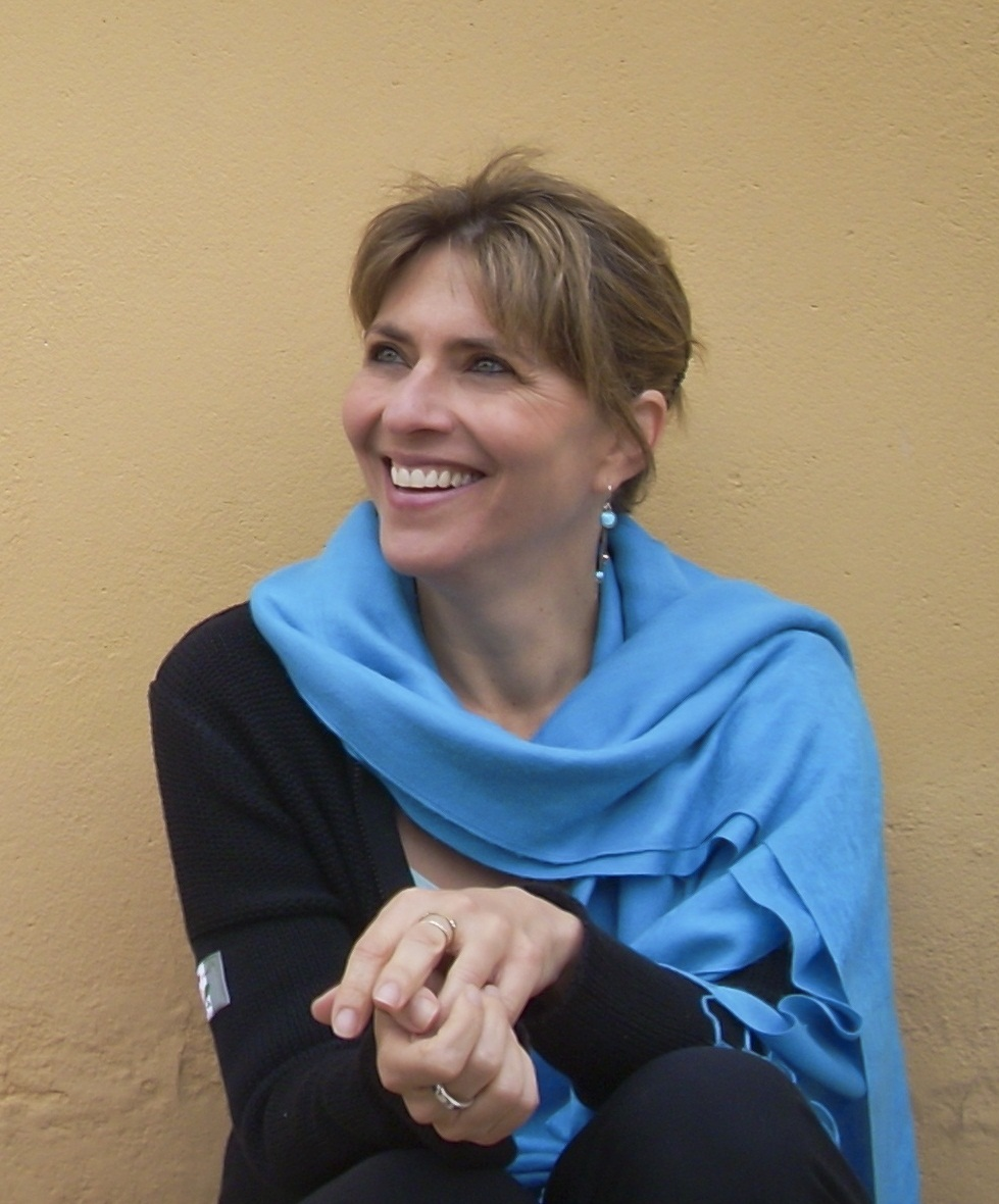 Photograph of Rachel Tzvia Back, taken in Mojacar Spain, February 2008.